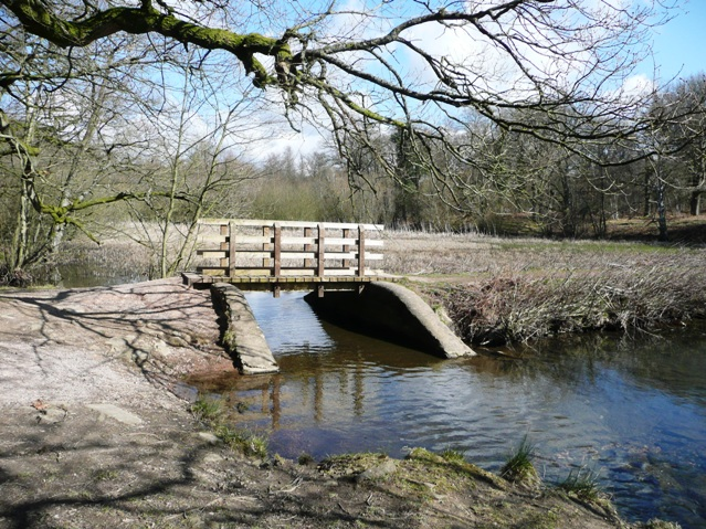 Bridge at Cannop Pond A bridge gives access to the far side of the pond, across a feeder stream.